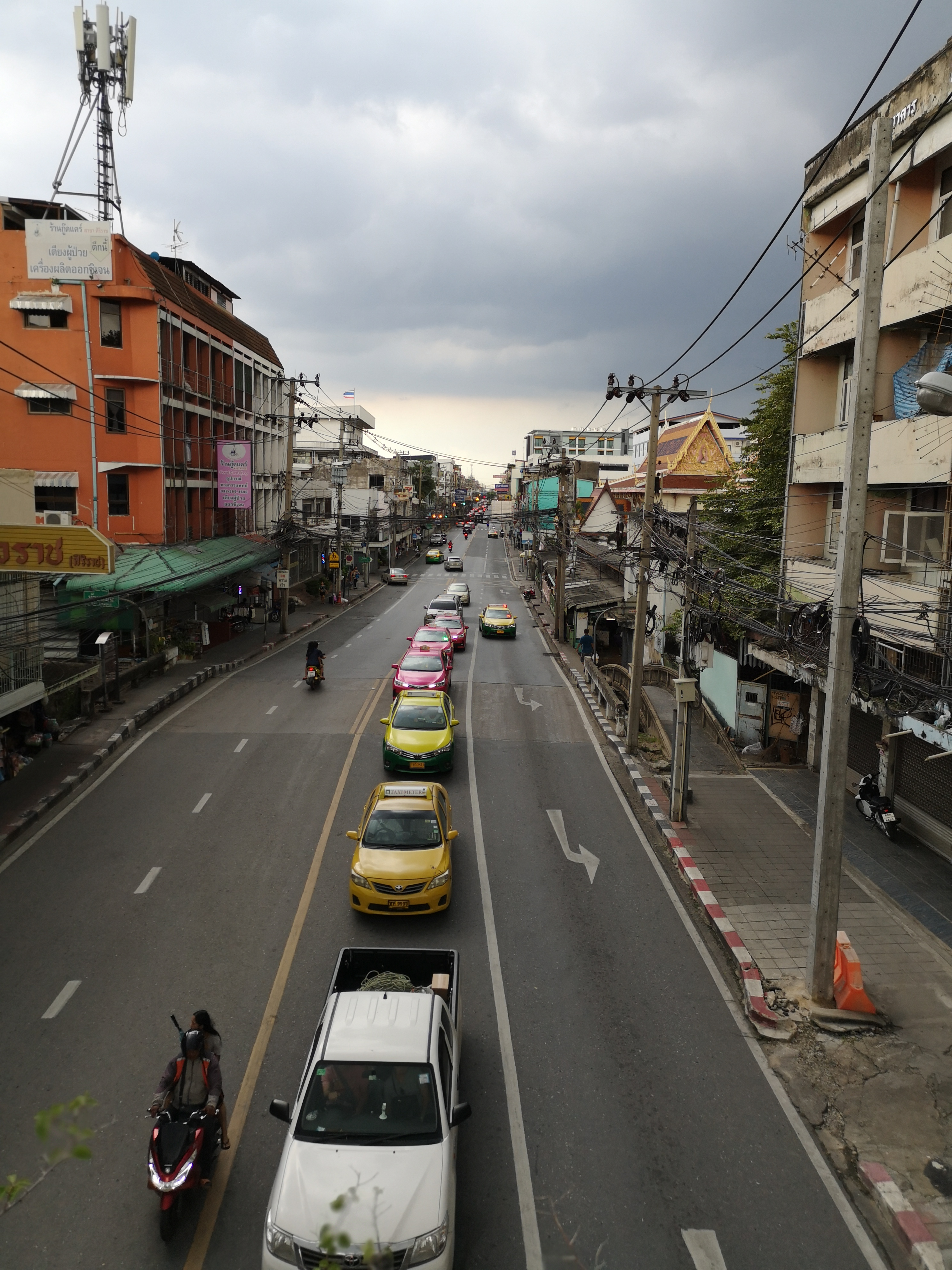 Thanon Wang Lang at Sirirat intersection